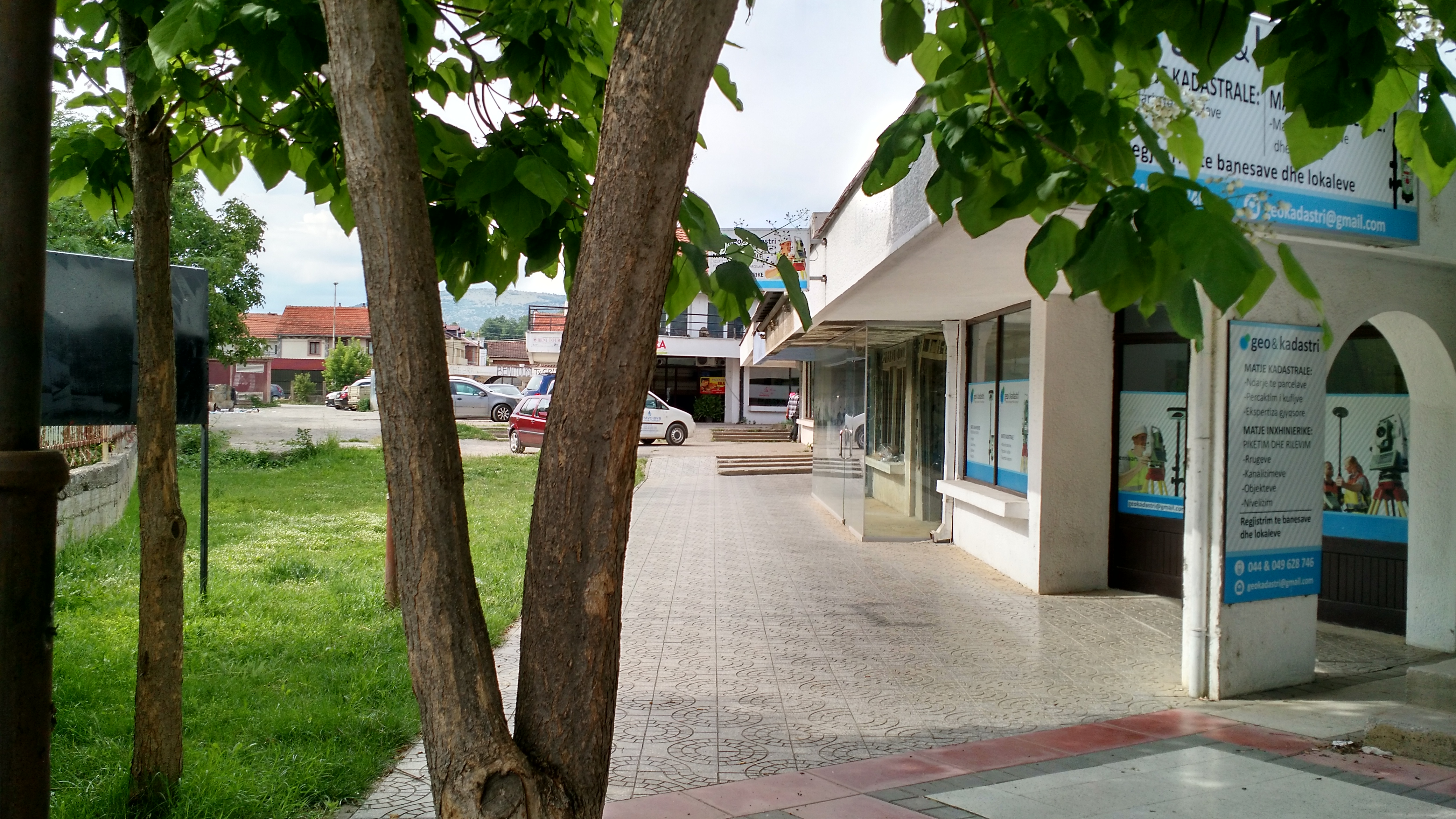 A photograph showing the sidewalk outside the location of the 1999 Suva Reka massacre.